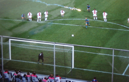 CWC 1997 final, PSG-Barcelona ; Ronaldo scores the only goal of the game with a penalty kick. Personal photo. The firework is unrelated.